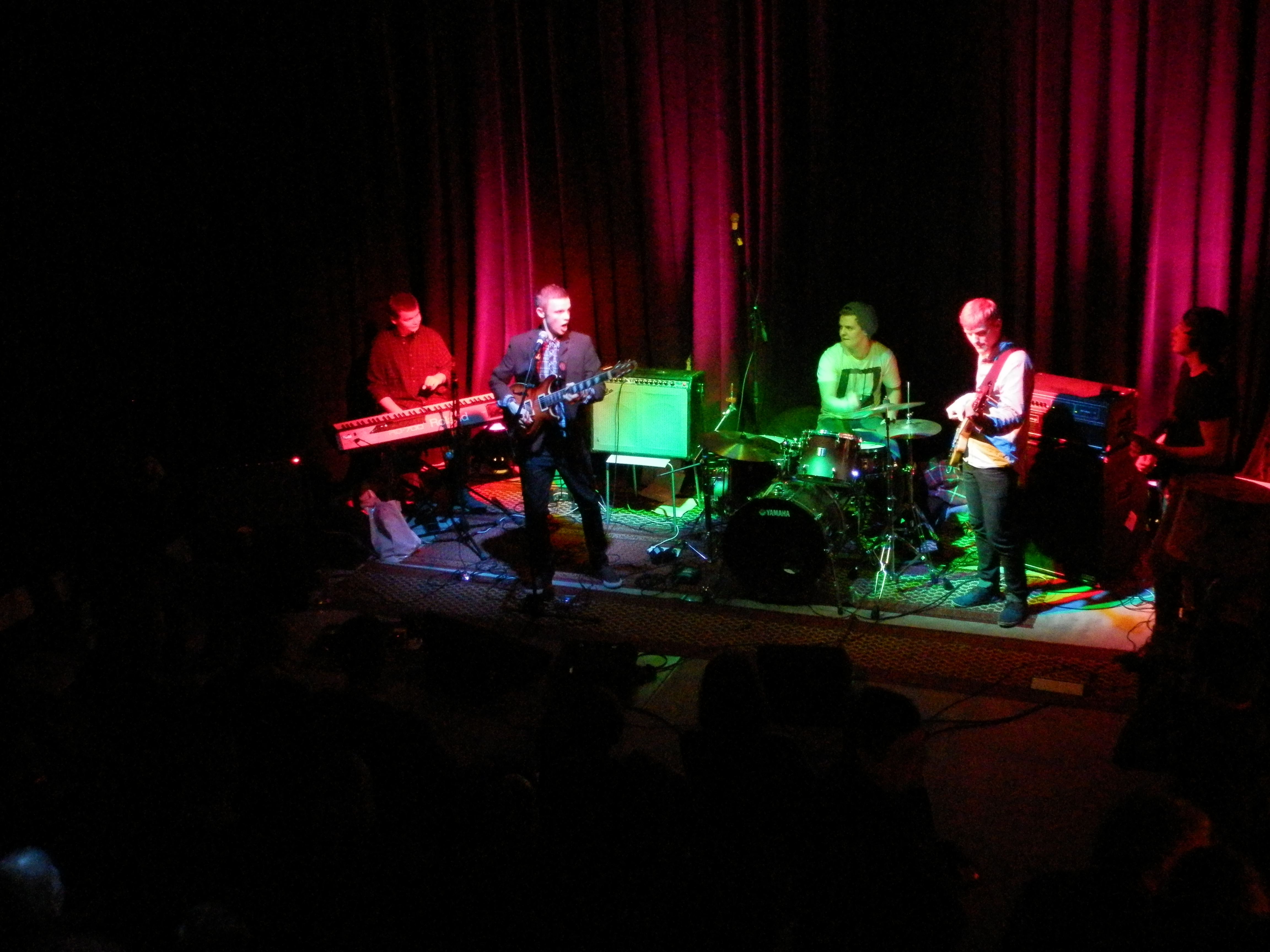 Blueberry Jam Session is a Faroese blues band. This photo was taken at the event Blues Perlan, which was held in Perlan in Tórshavn, Faroe Islands in April 2014. The lead singer of the band is Ragnar Finsson.